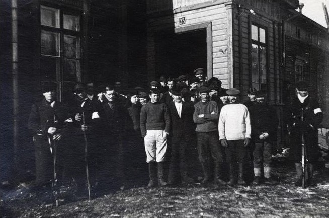 Red Guard fighters captured after the 1918 Finnish Civil War Battle of Kristinestad.